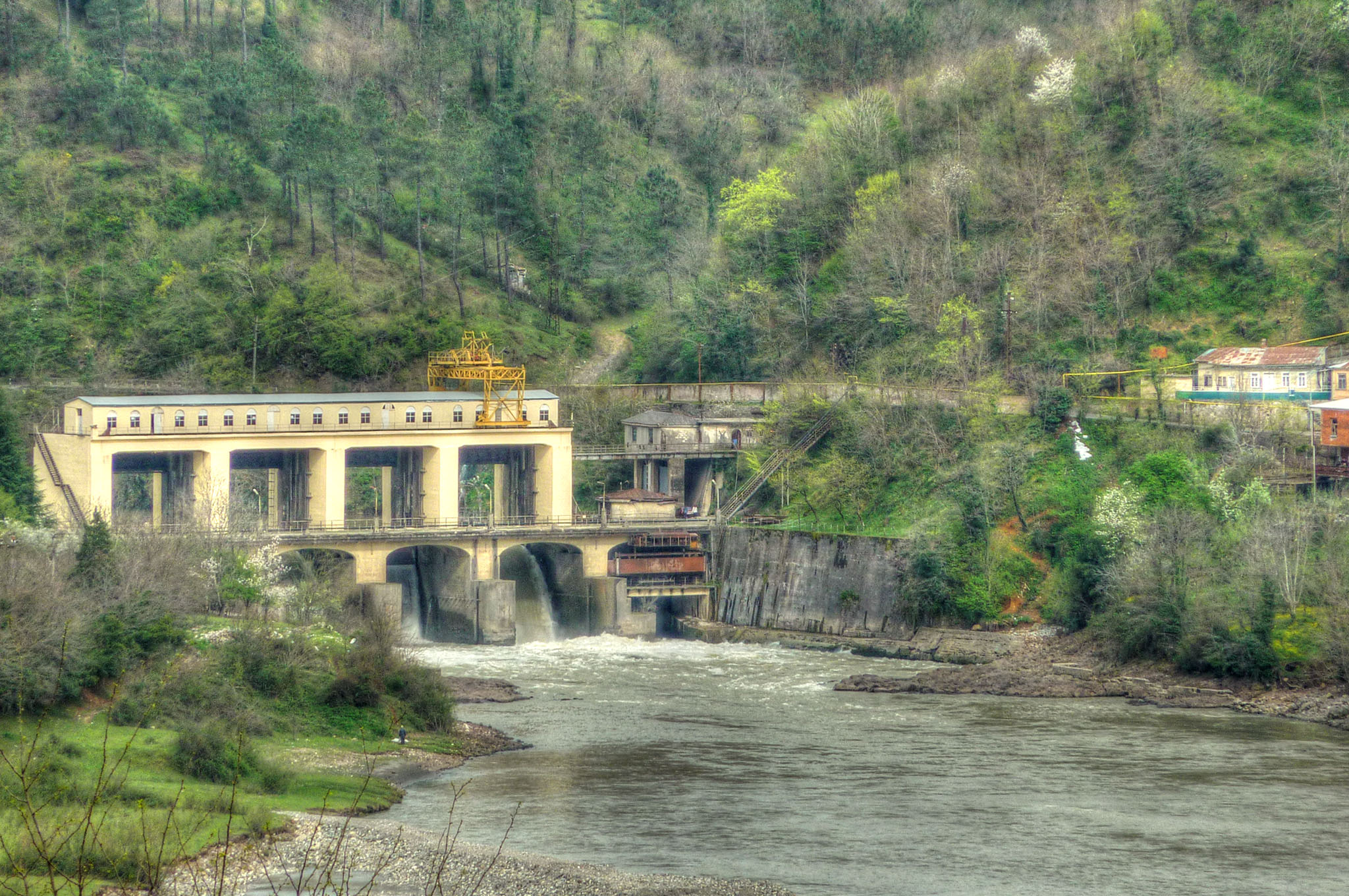 Rioni Hydroelectric Power Plant